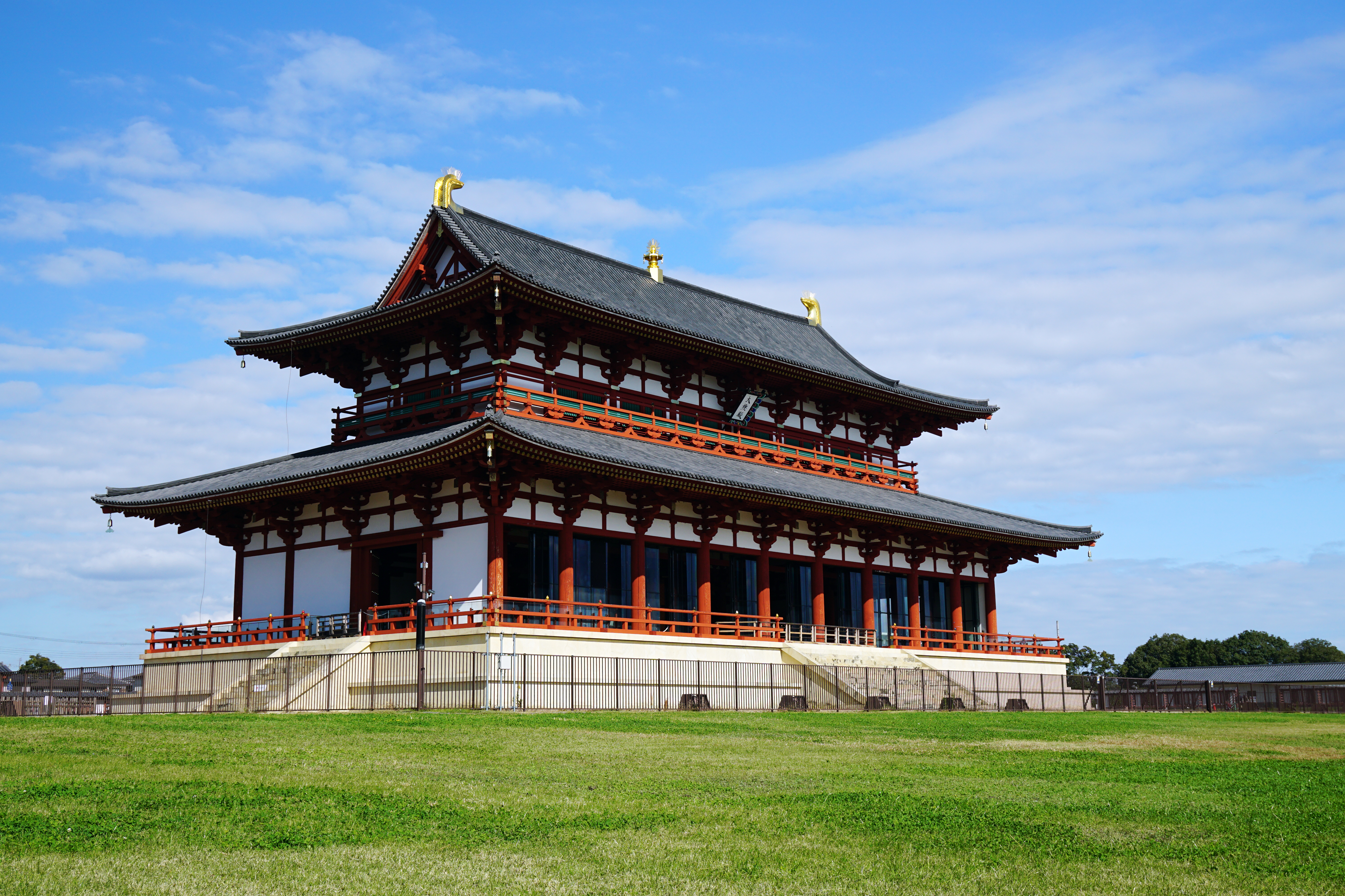 At Heijō-kyō ruins in Nara, Nara prefecture, Japan.